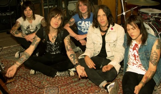 Nico Constantine and The Biters, rockin' on the floor